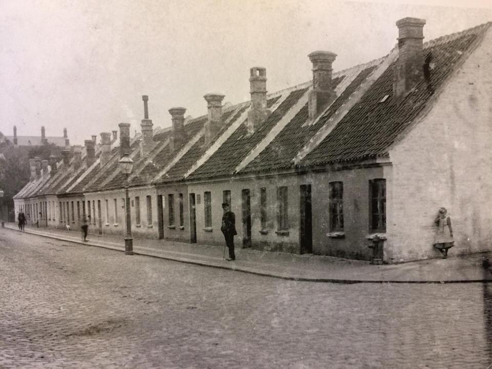 Working class homes seen from Boulevarden